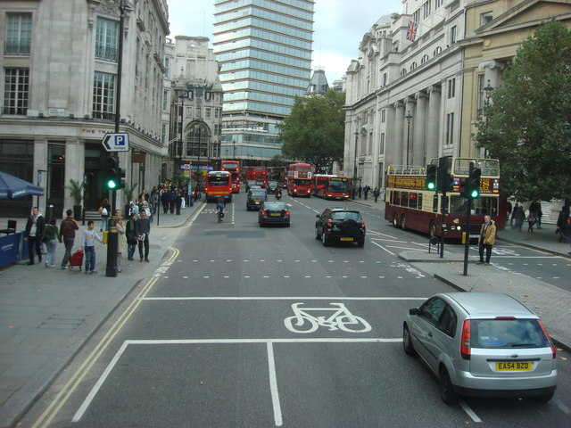 The A4 road, Cockspur Street, in central London. In the distance is the glass skyscraper of New Zealand House. On display is a mix of buses. The red buses are public transport buses, contracted by London Buses. There's some new double-deckers, two articulated buses, and a heritage Routemaster operating London Buses heritage route 9. Below right is a tour bus, an ex-Hong King tri-axle of The Big Bus Company.